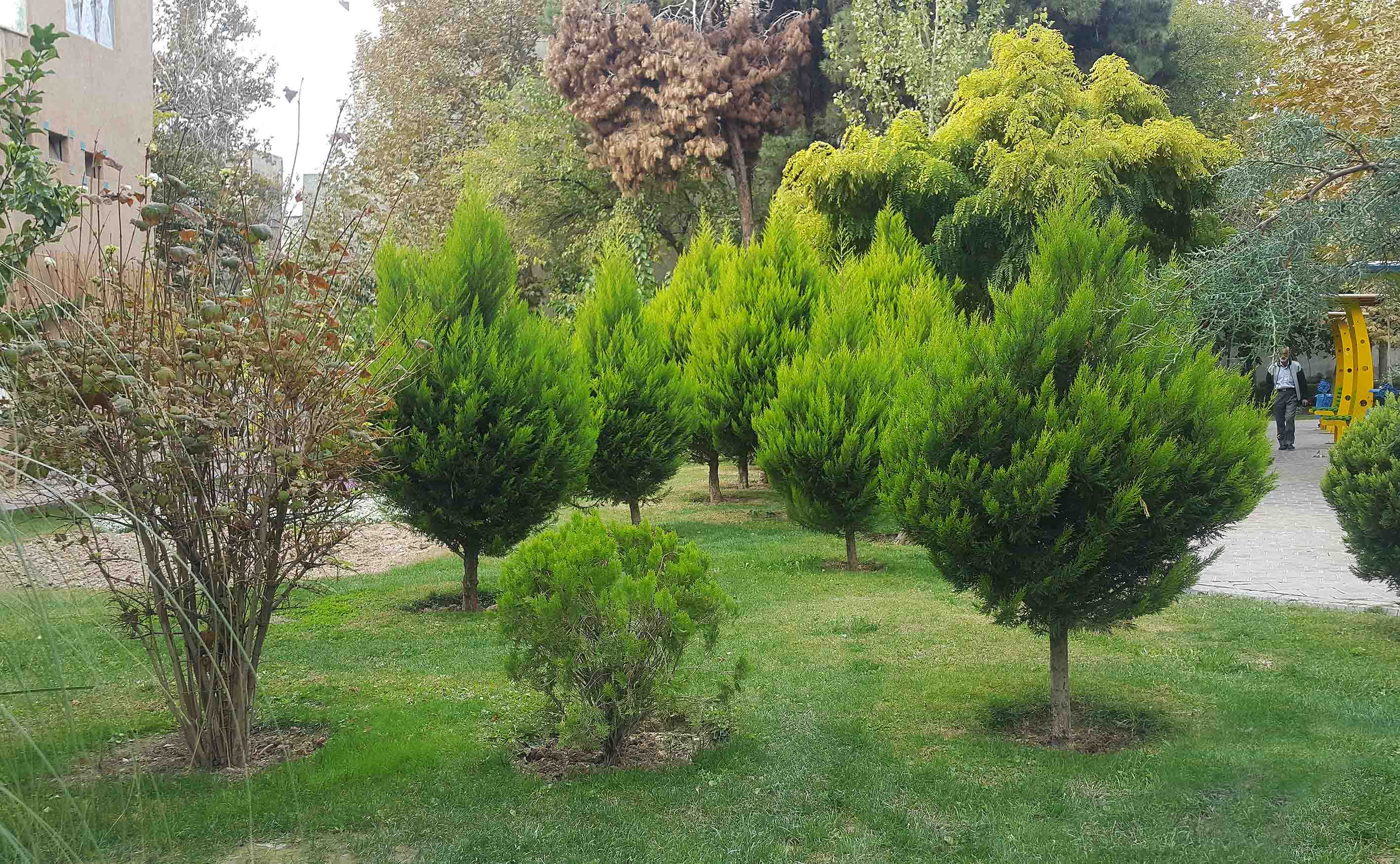 On 9th of March 2014 some pine trees were planted at Andisheh Park during a ceremony for honoring a few notable figures of the city. The closest pine to the camera belongs to Hossein Nuri. Other figures included Dariush Arjmand and Mohammad Motevaselani.